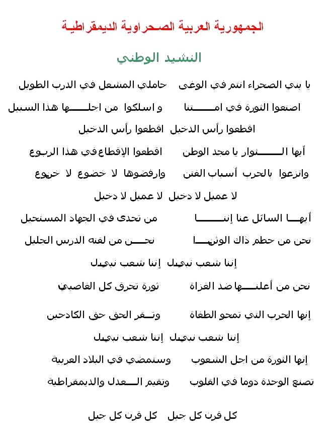 National anthem lyrics of SADR